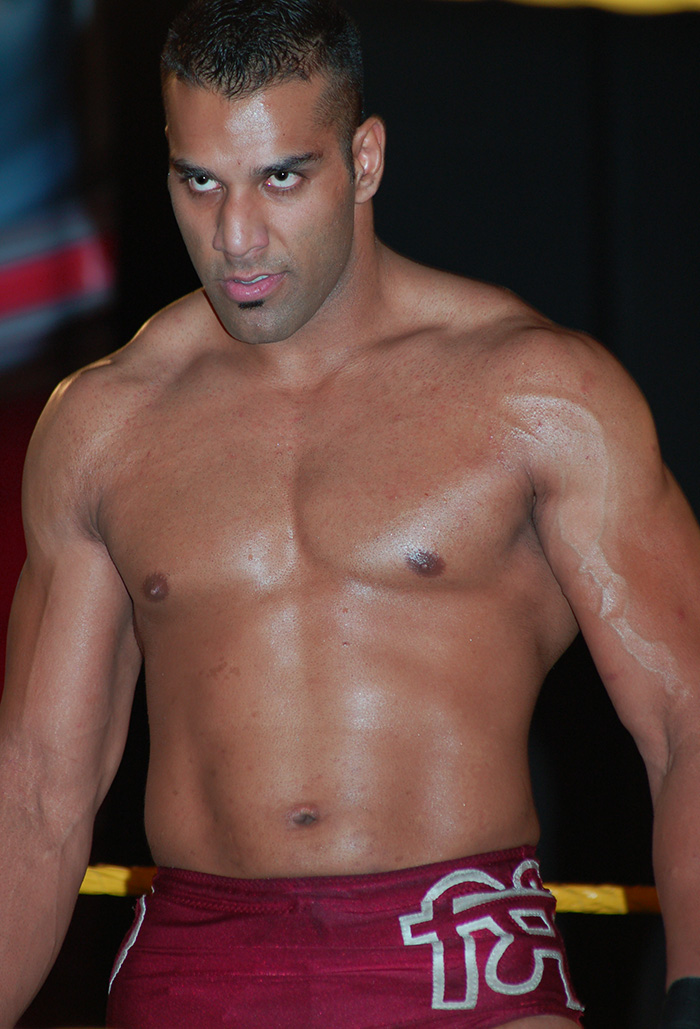 Photo I took of Jinder Mahal on Feb. 17th 2011 in Tampa Florida and the Florida Championship Wrestling arena.